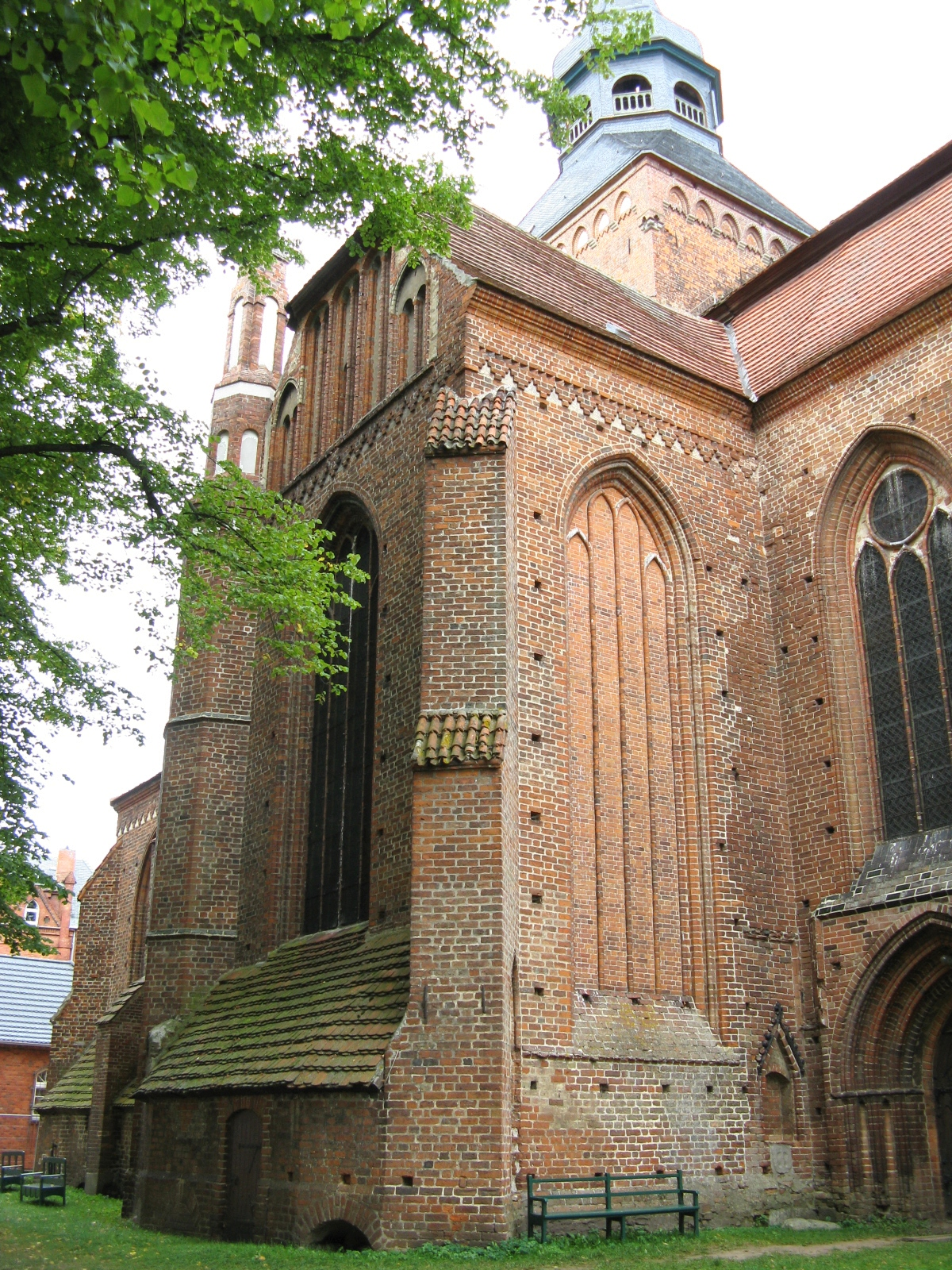 Church in Sternberg, Mecklenburg-Vorpommern, Germany; chapel